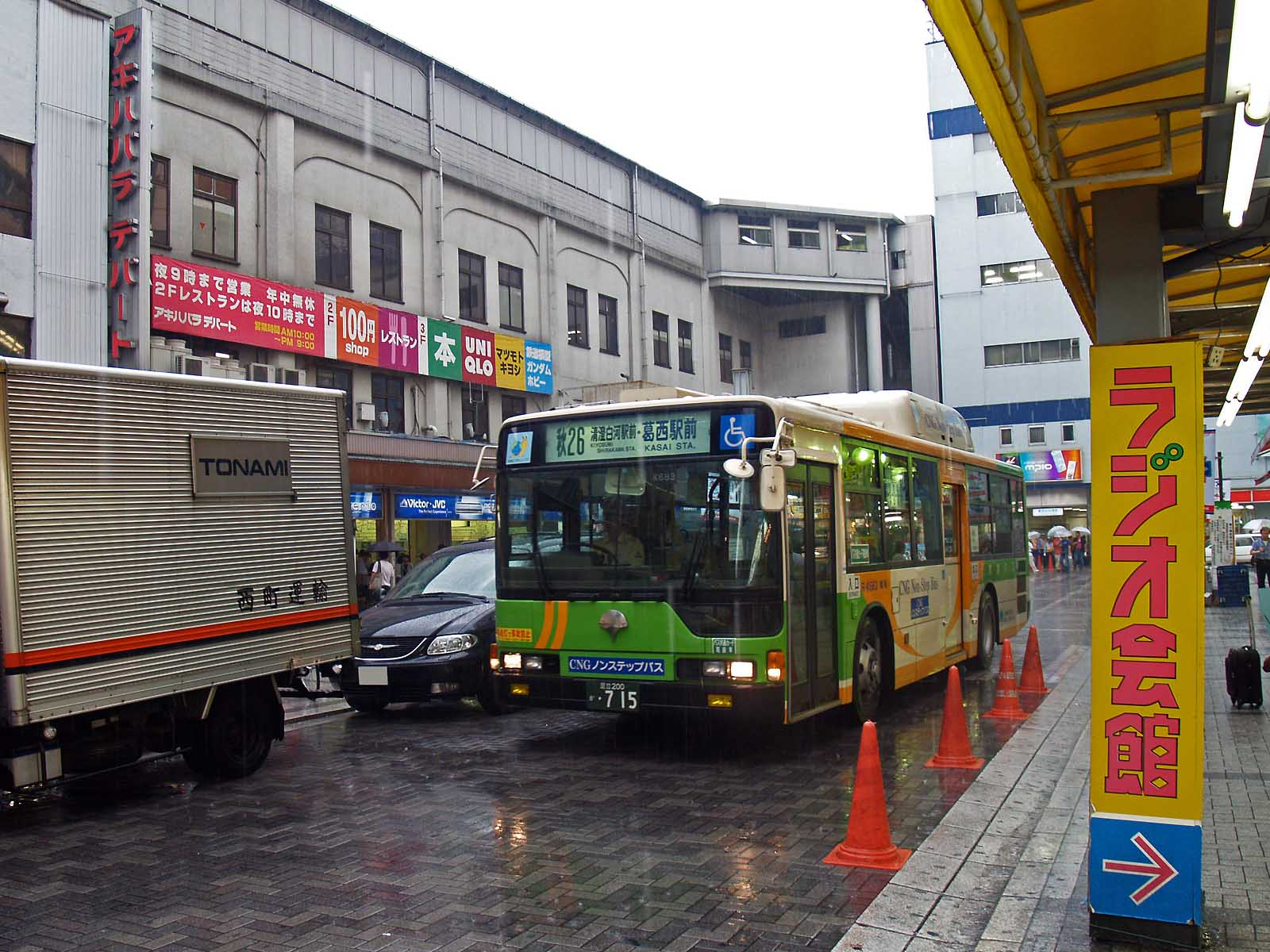 Toei Bus "Aki 26" route, departed from Akihabara Station. Photo taken on the final day of "Denki-gai guchi" side busstop. Model: Mitsubishi Fuso Aero Star KL-MP37JK License plate: TKA200 KA-715